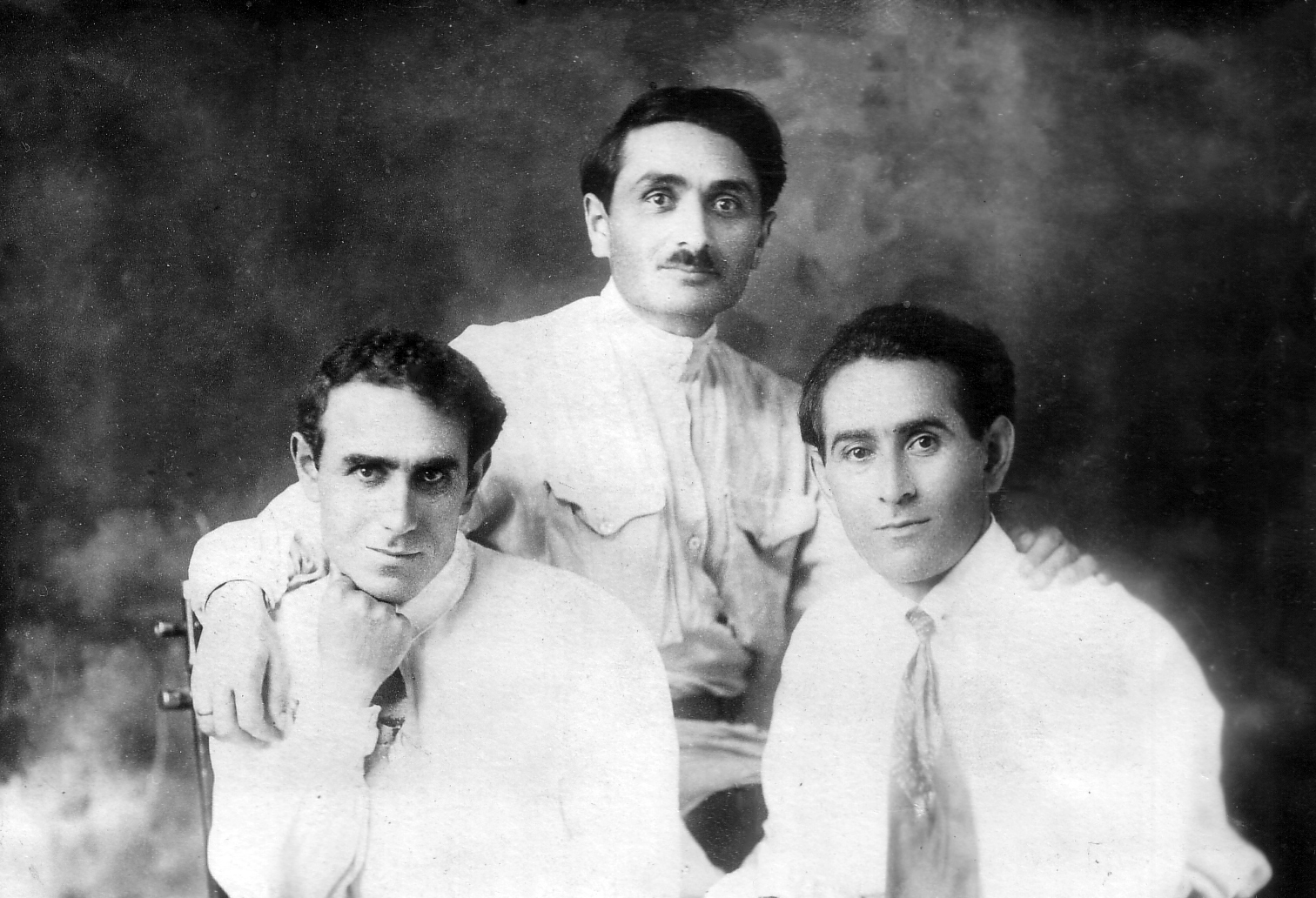 Armenian painter Vagharshak Ghazaryan with brothers, composer Daniel Ghazaryan and Grigor Ghazaryan.